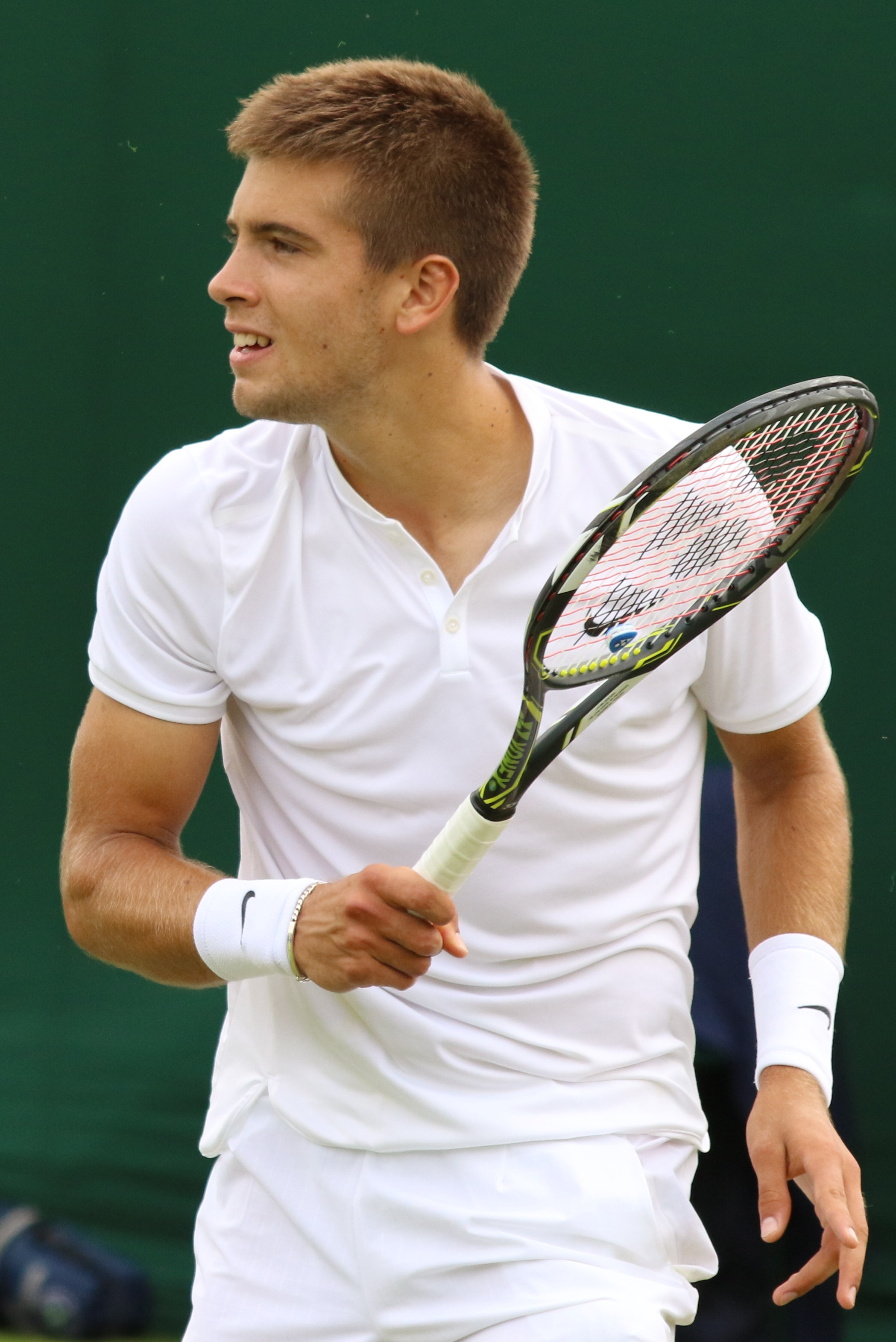 Coric WM16 (33)